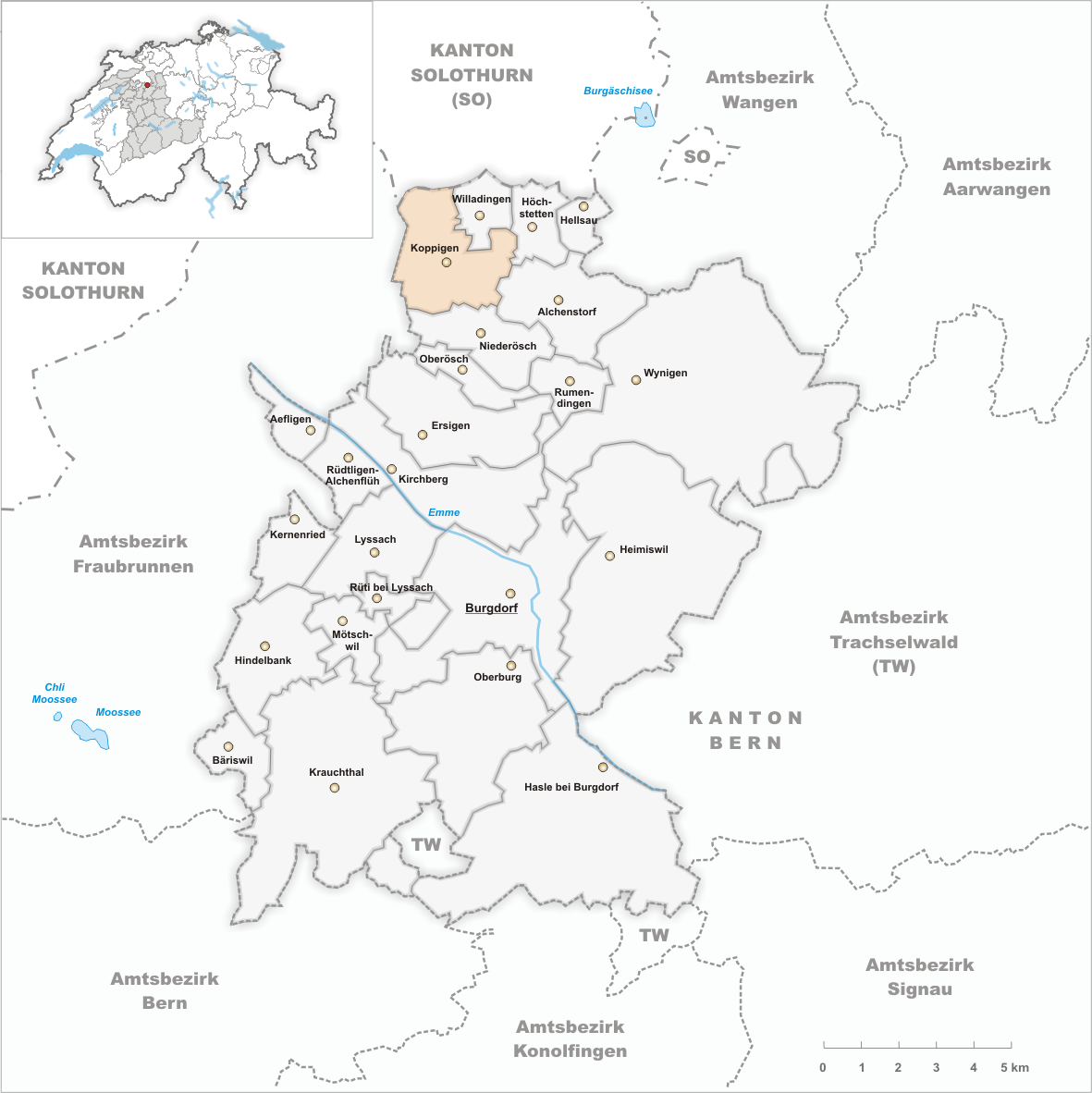 Municipality Koppigen